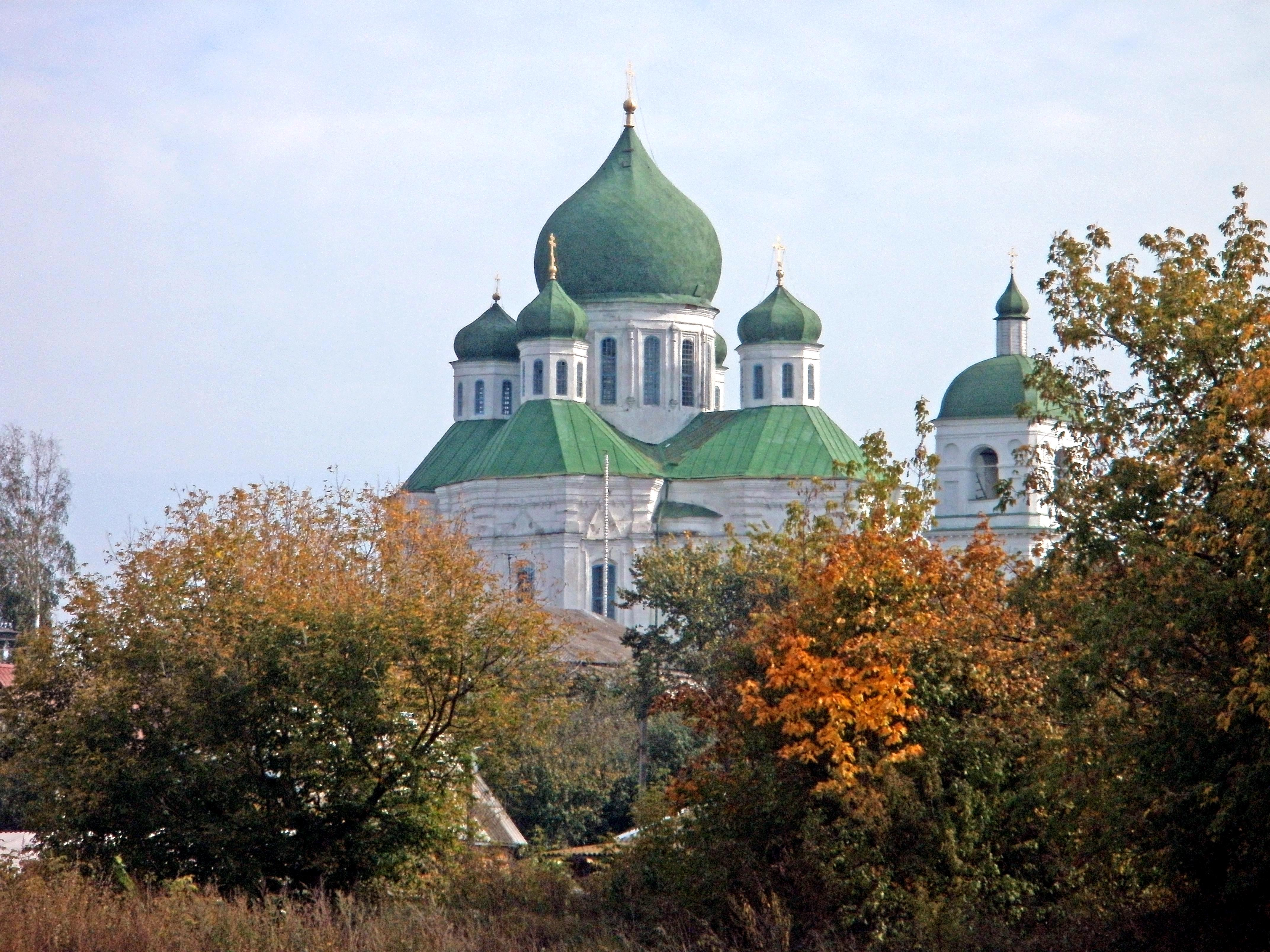 Dormition Cathedral, Novhorod-Sivers'kyi, Chernihiv Oblast, Ukraine